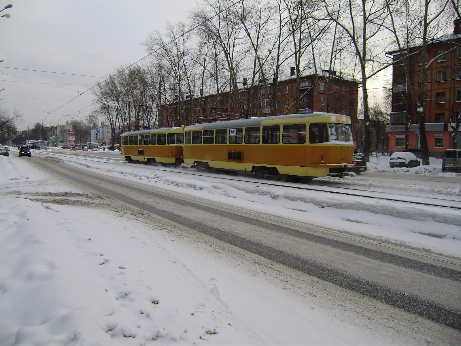 Tekhnicheskaya Street, Yekaterinburg